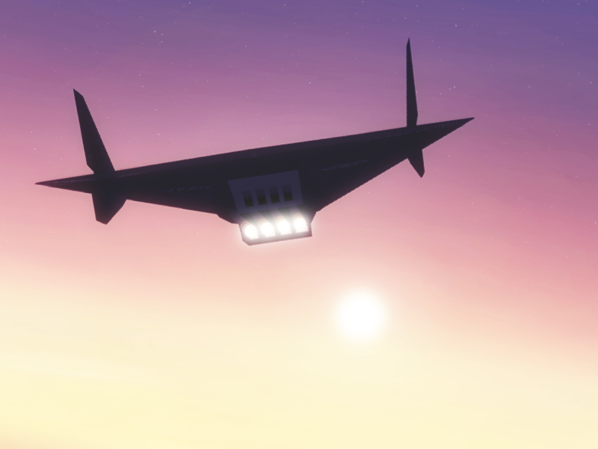 A screenshot of my Aurora (aircraft) in the flight sim X-Plane (ver. 8.60)